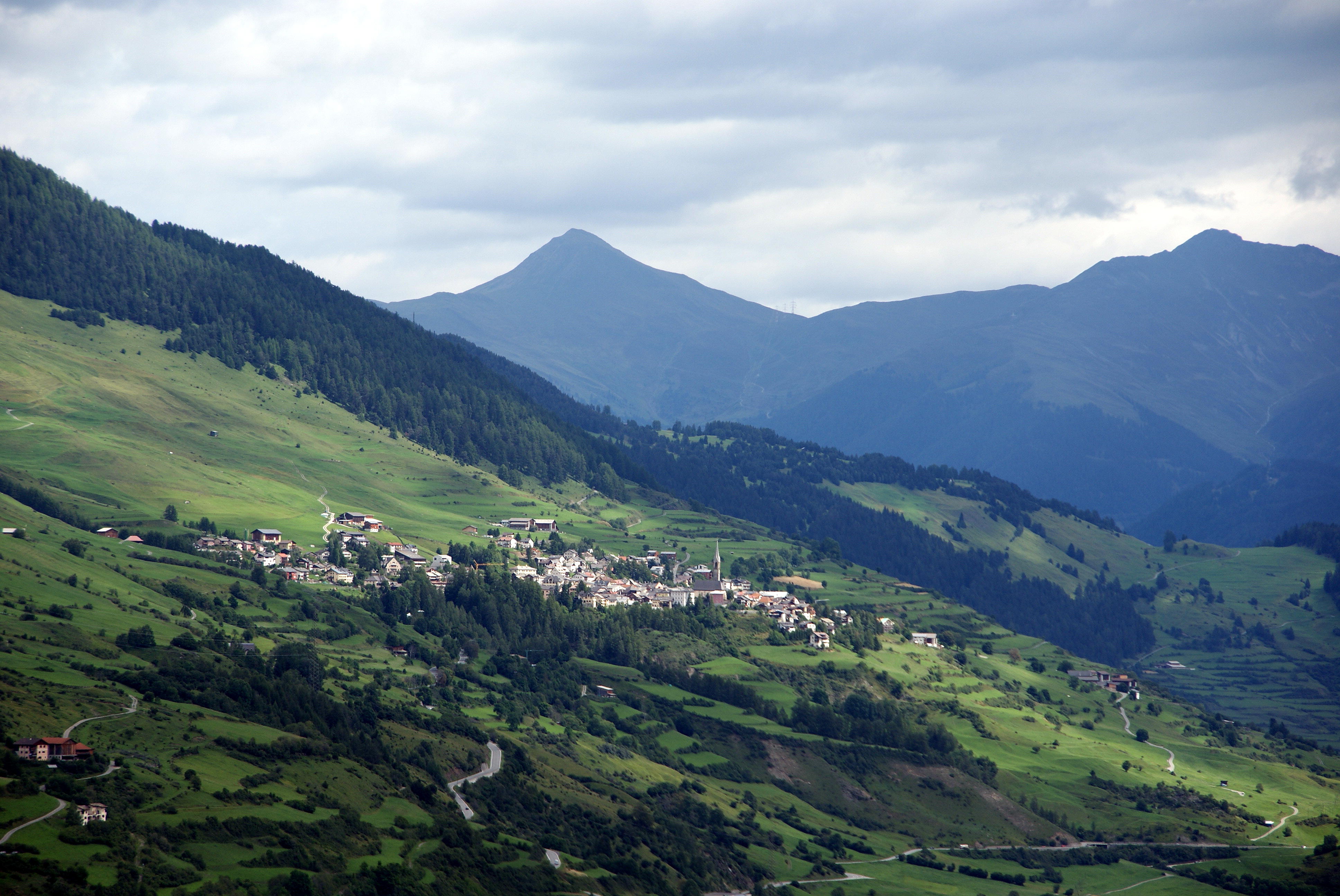 Sent, Lower Engadine